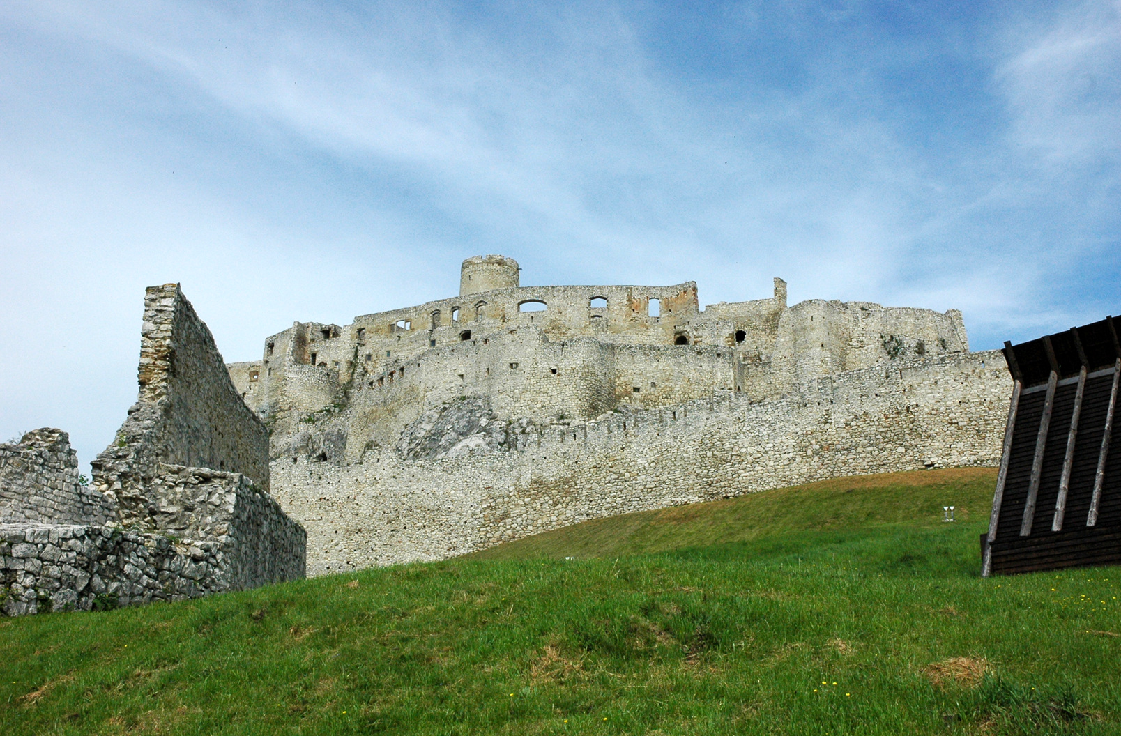 Spiš Castle